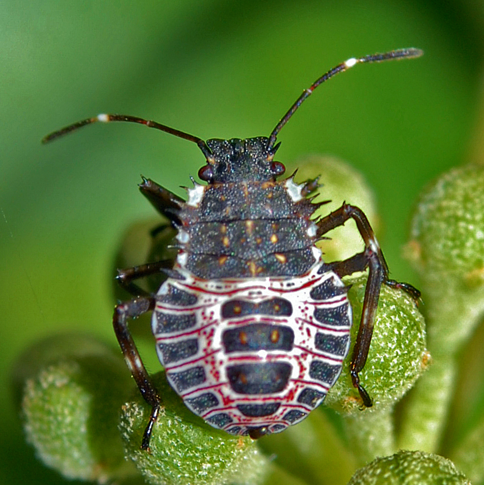 Halyomorpha halys, 5th instar nymph